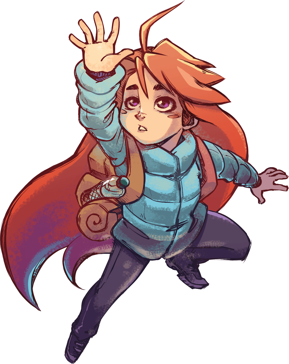 Madeline from the video game Celeste.